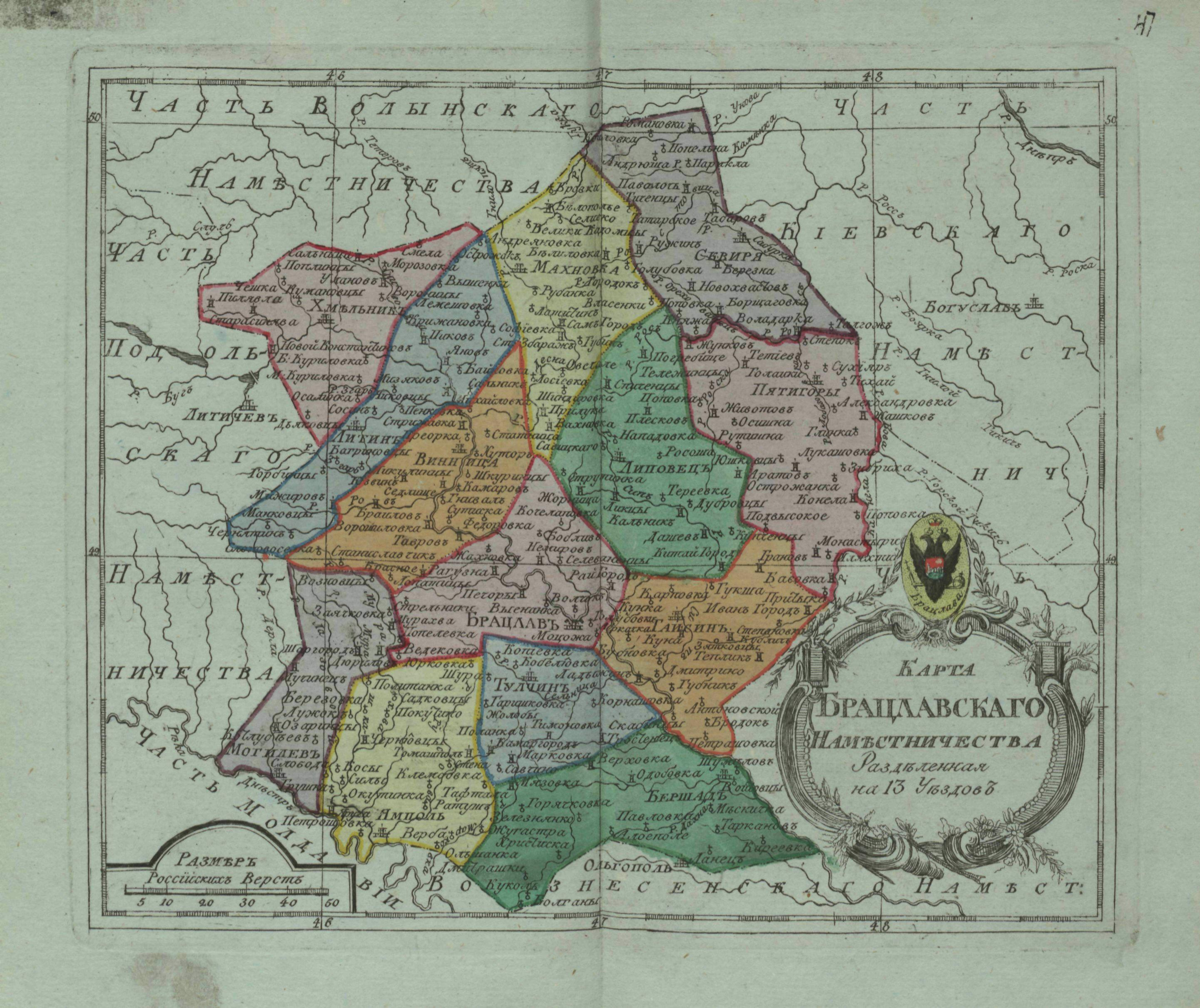 Small atlas of the Russian Empire (1796). Map of Bratslav Namestnichestvo (map 47).